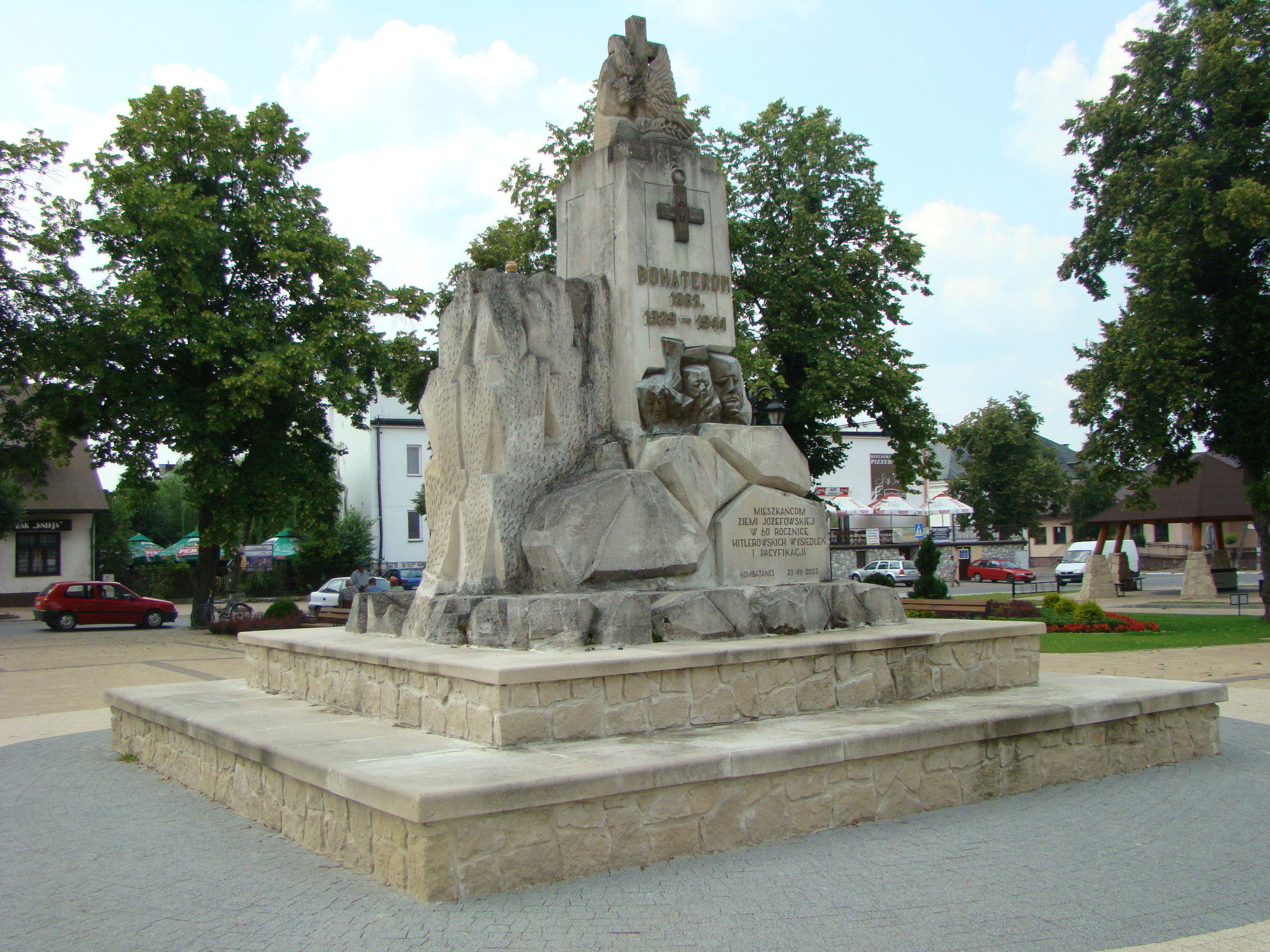 A monument to heroes of 1863 January Uprising and 1933-1944 World War II in Józefów, Poland.